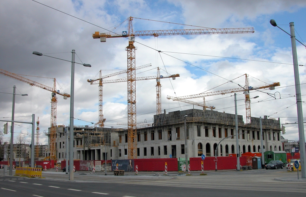 Brunswick, Germany: Construction site of Braunschweig Palace, March/April 2006.